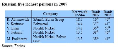 Russian_richest_2007